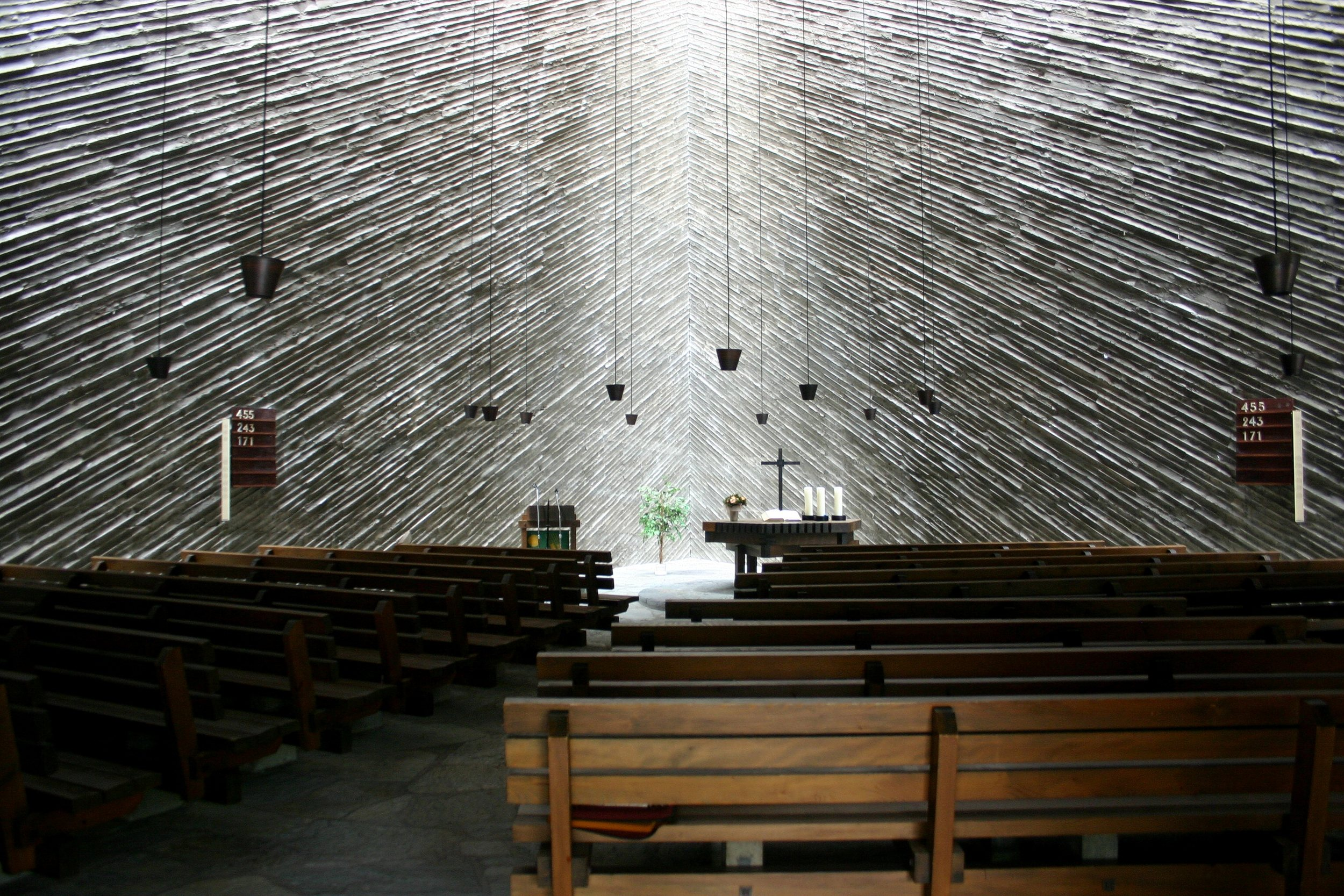 Auferstehungskirche Köln-Buchforst, Innenraum